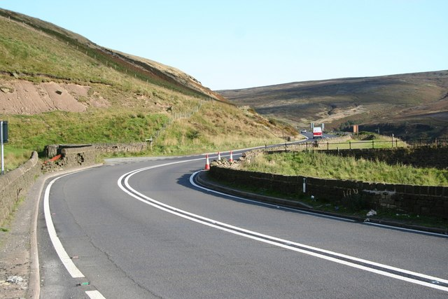 Woodhead Pass. View from a layby by Audernshaw Clough 490118 looking east along Woodhead Pass at Ironbower Moss